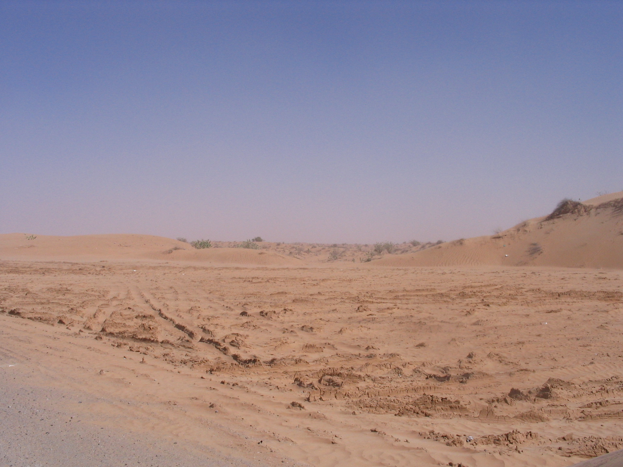 Deserts of Umm Al Quwain, United Arab EmiratesIMG_1371.JPG